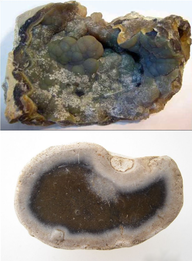 Chalcedone - rock-forming mineral of Fintstone